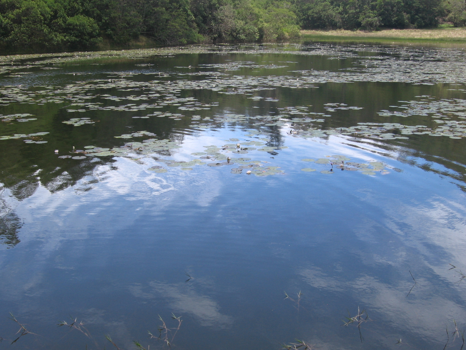 Berijam Lake.